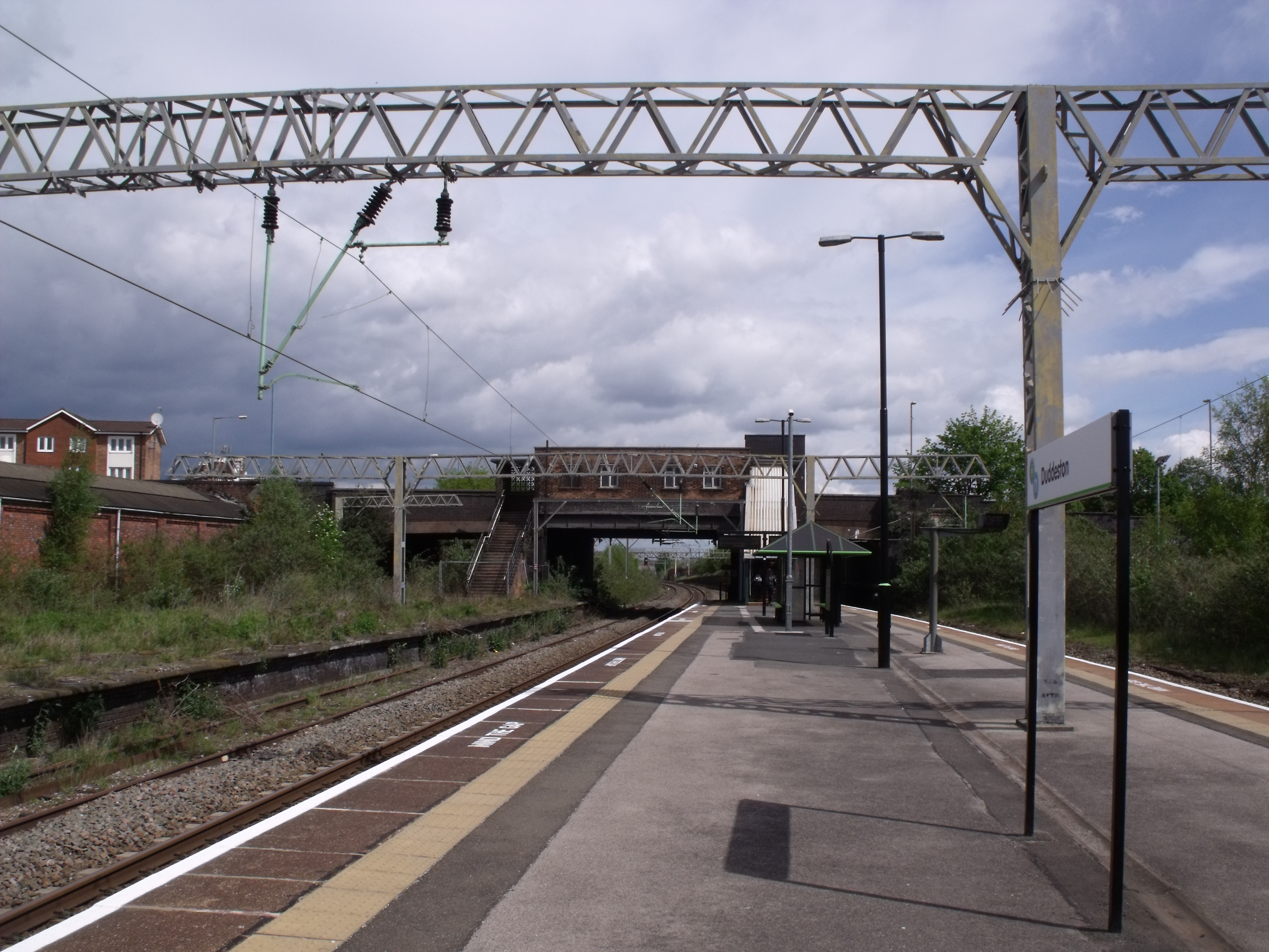 I went to Duddeston Station to go to the Open Day at the Dollman Street Stores of the Museum Collection Centre. The station is in the Vauxhall area of the city (near Nechells). The station was first opened in 1837 when it was known as Vauxhall & Duddeston. It used to have a carriage shed but that has long since been demolished. It has two derelict and over grown platforms not in use (tracks have been lifted / removed there). This was when I arrived. The man on the train said that the way I was going wasn't the way out (I knew that, but first I wanted to get some shots before heading to Dollman Street). The derelict platforms.